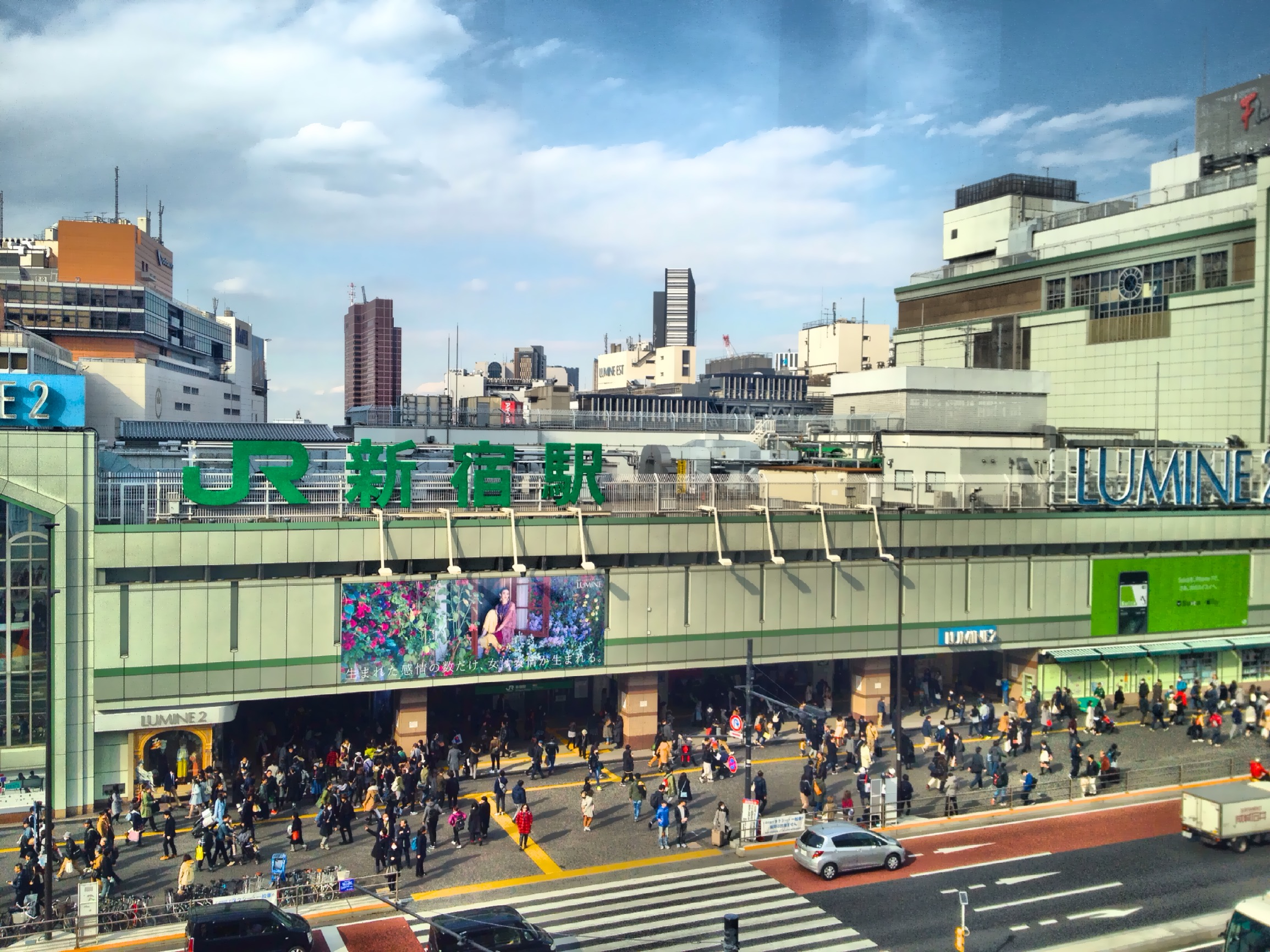 新宿駅の南口 (Shinjuku station south exit)